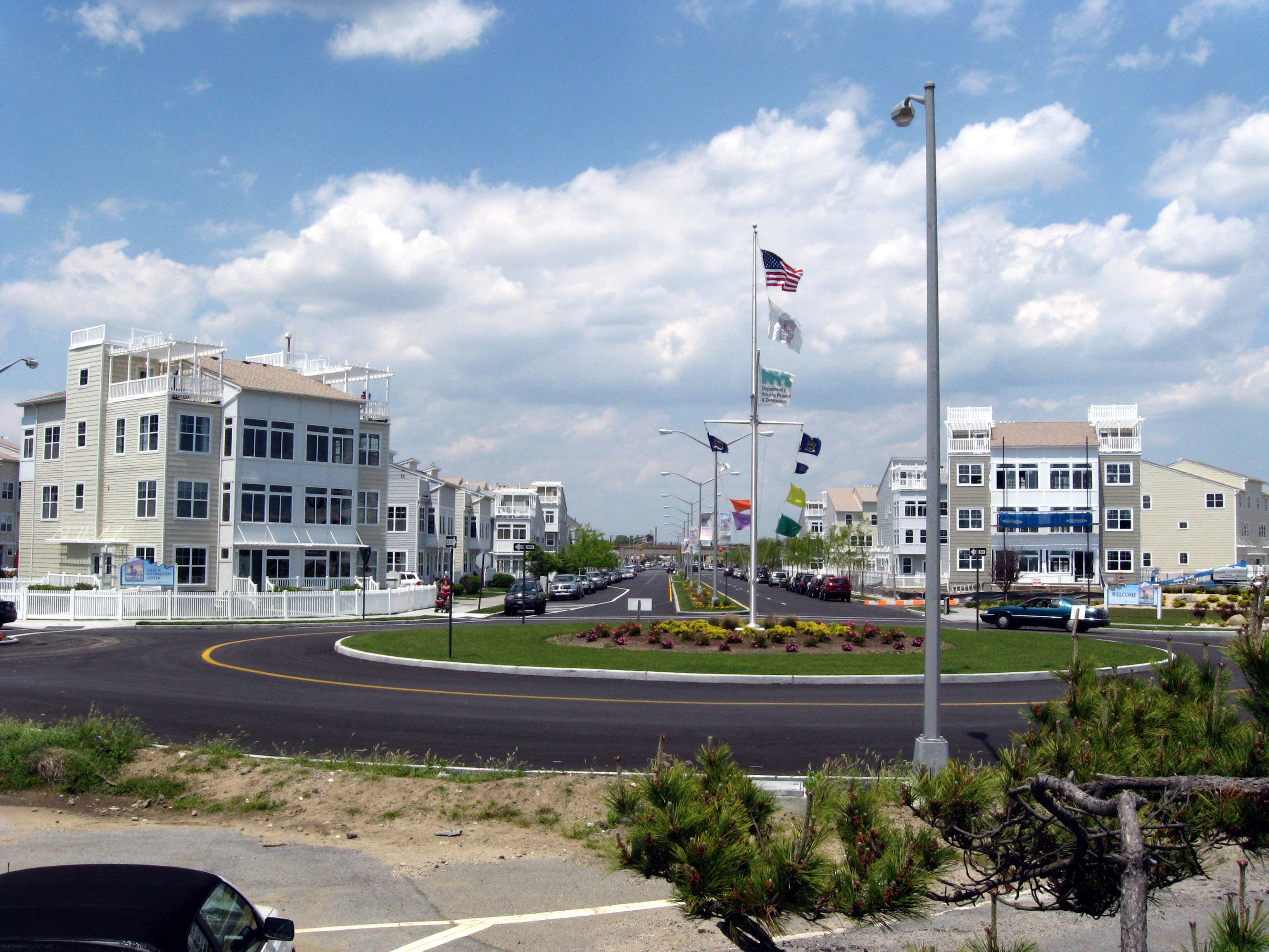 Looking north along Beach 73d Street from Boardwalk at new Averne by the Sea development. ZIP 11692.